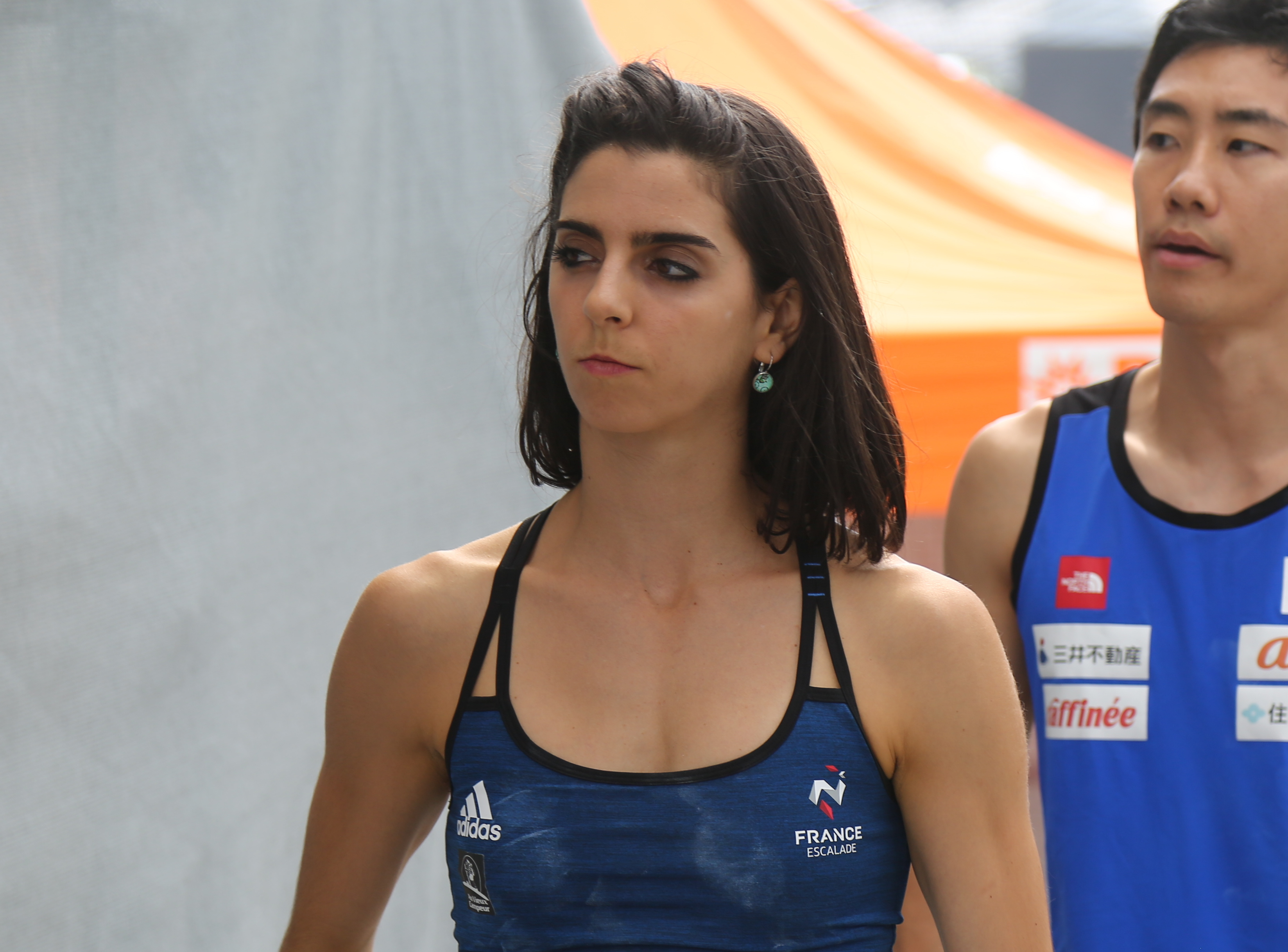 Boulder Worldcup 2018, Final Event in Munich 2018-08-18, Semi-Finals.